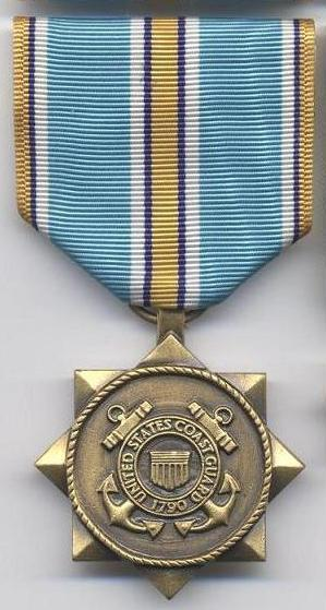 After the Gold and Silver Lifesaving Medals, this is the highest civilian public service award presented by the U.S. Coast Guard.